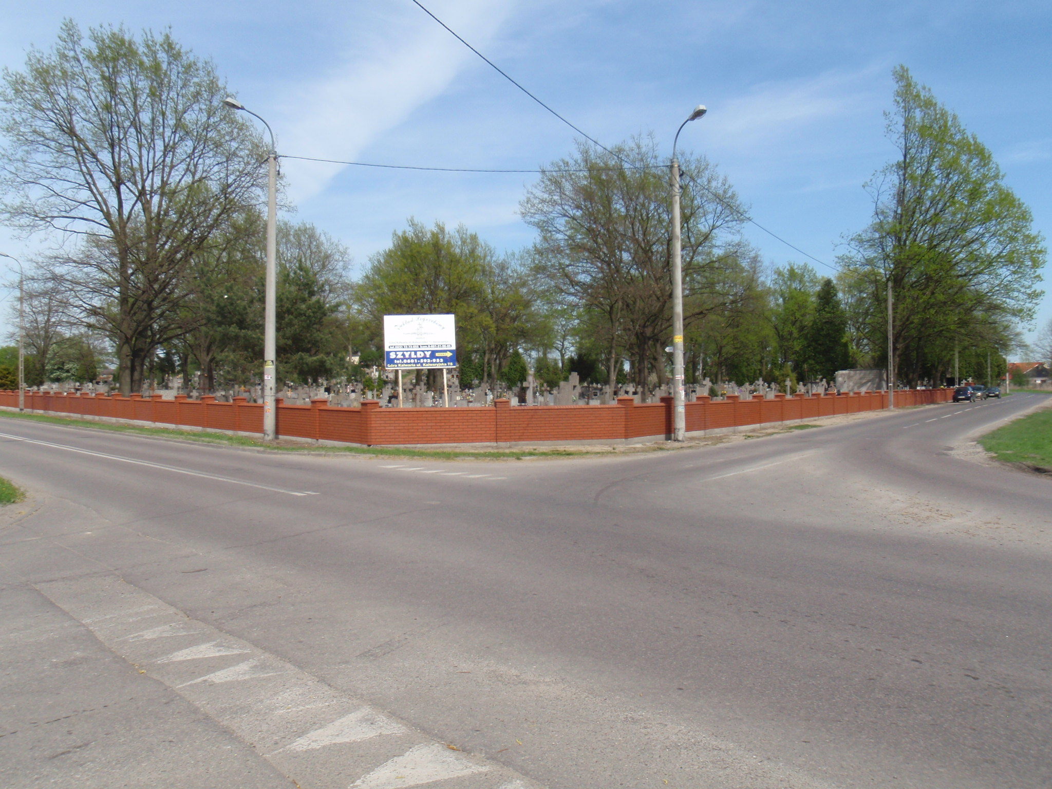 Catholic cemetery in Góra Kalwaria